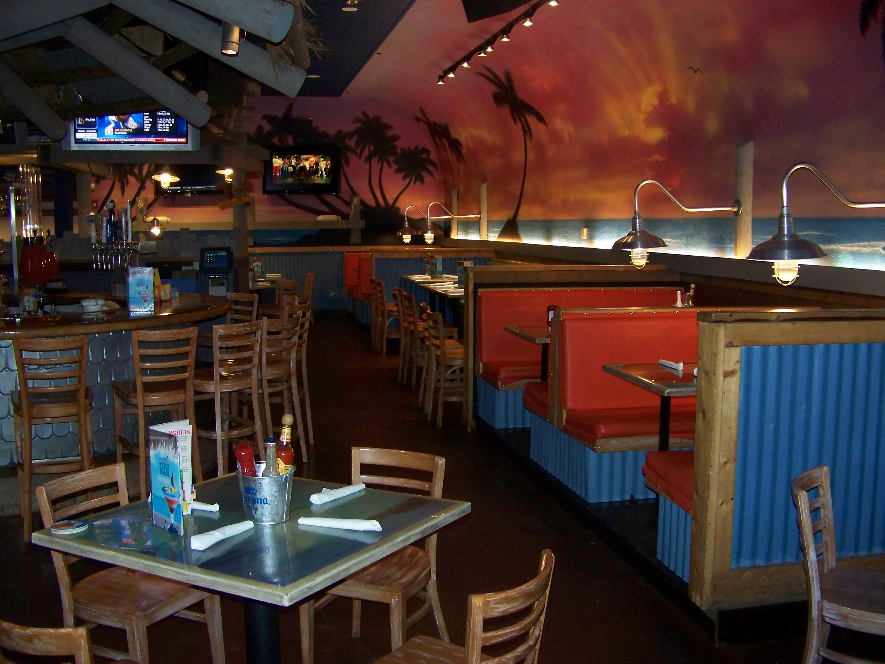 The interior of a Cheeseburger in Paradise restaurant.